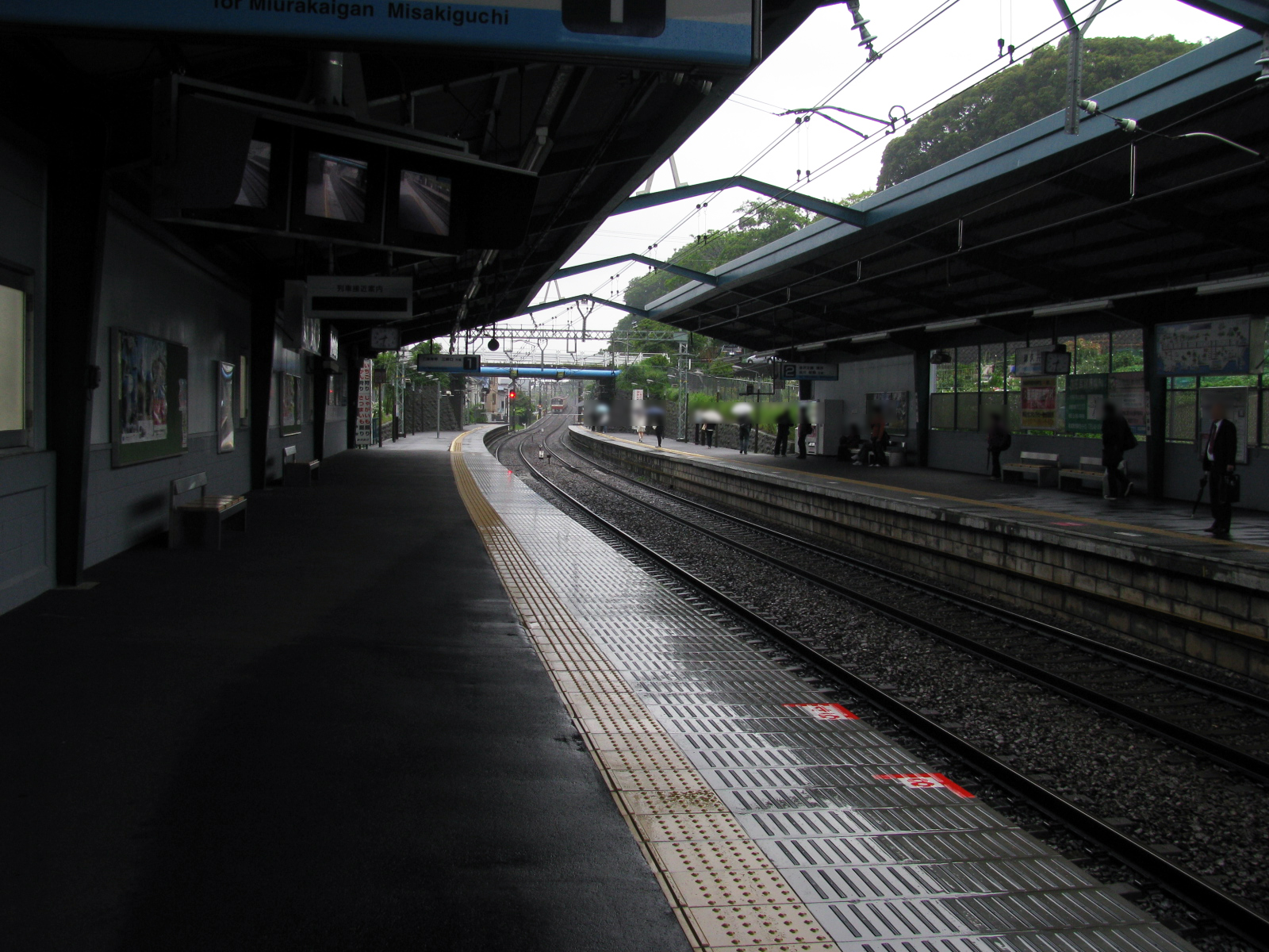 This photo is Tsukuihama Station on Keikyu Kurihama Line.